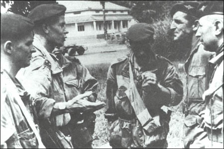 Original description: "Lieutenant Peirelinck, commanding 11th Company, reports to Colonel Laurent" [1]